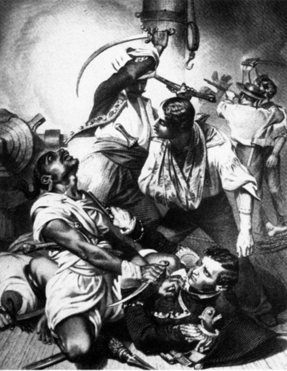 "Decatur's Conflict with the Algerine at Tripoli. Reuben James Interposing His Head to Save the Life of His Commander." Copy of engraving by Alonzo Chappel, 1858.